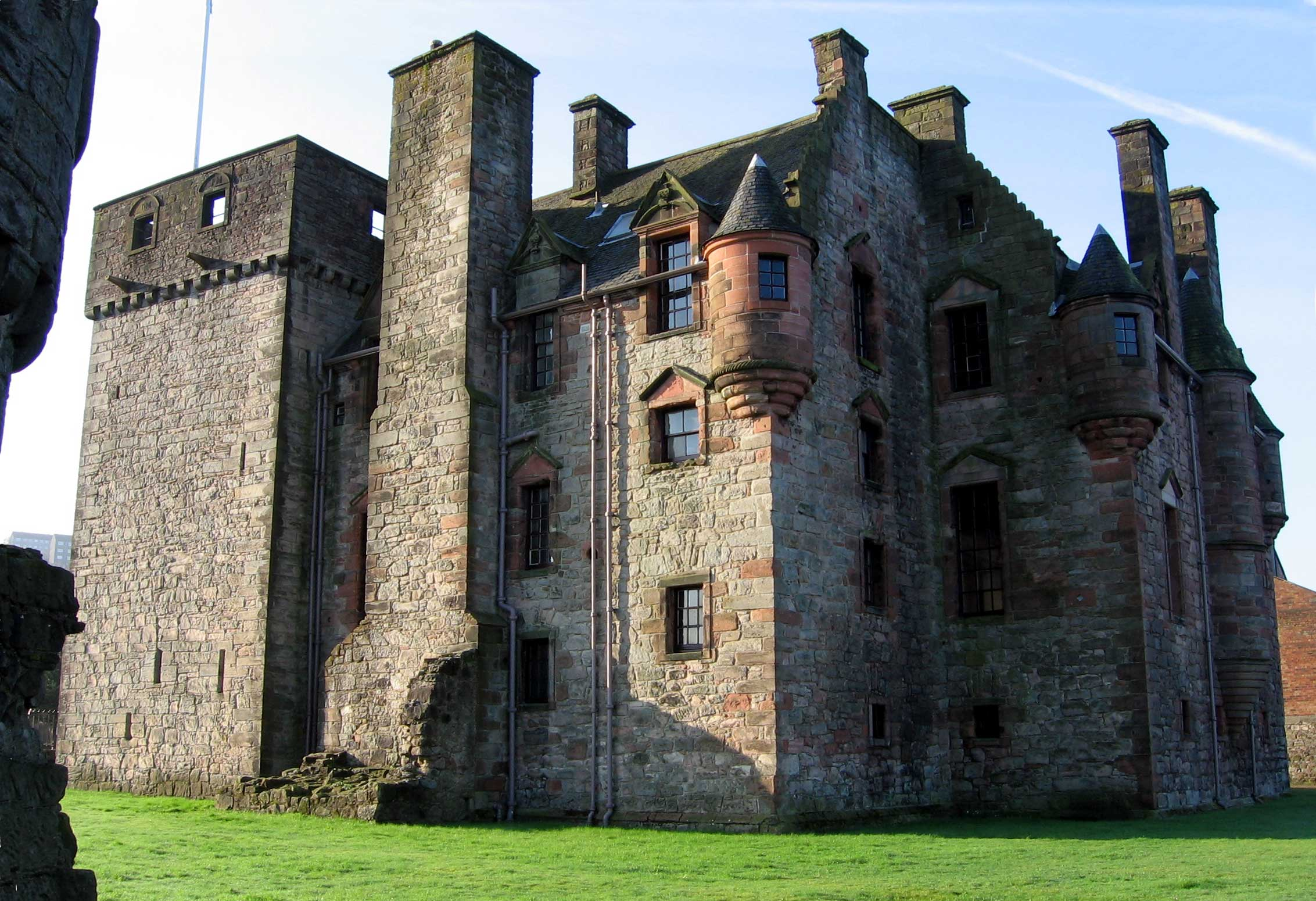 Newark Castle, Port Glasgow. tower house and Renaissance mansion from north-east, view past doocot. photograph taken in February 2006 by User:Dave souza. Any re-use to contain this licence notice and to attribute the work to User:Dave souza at Wikipedia.